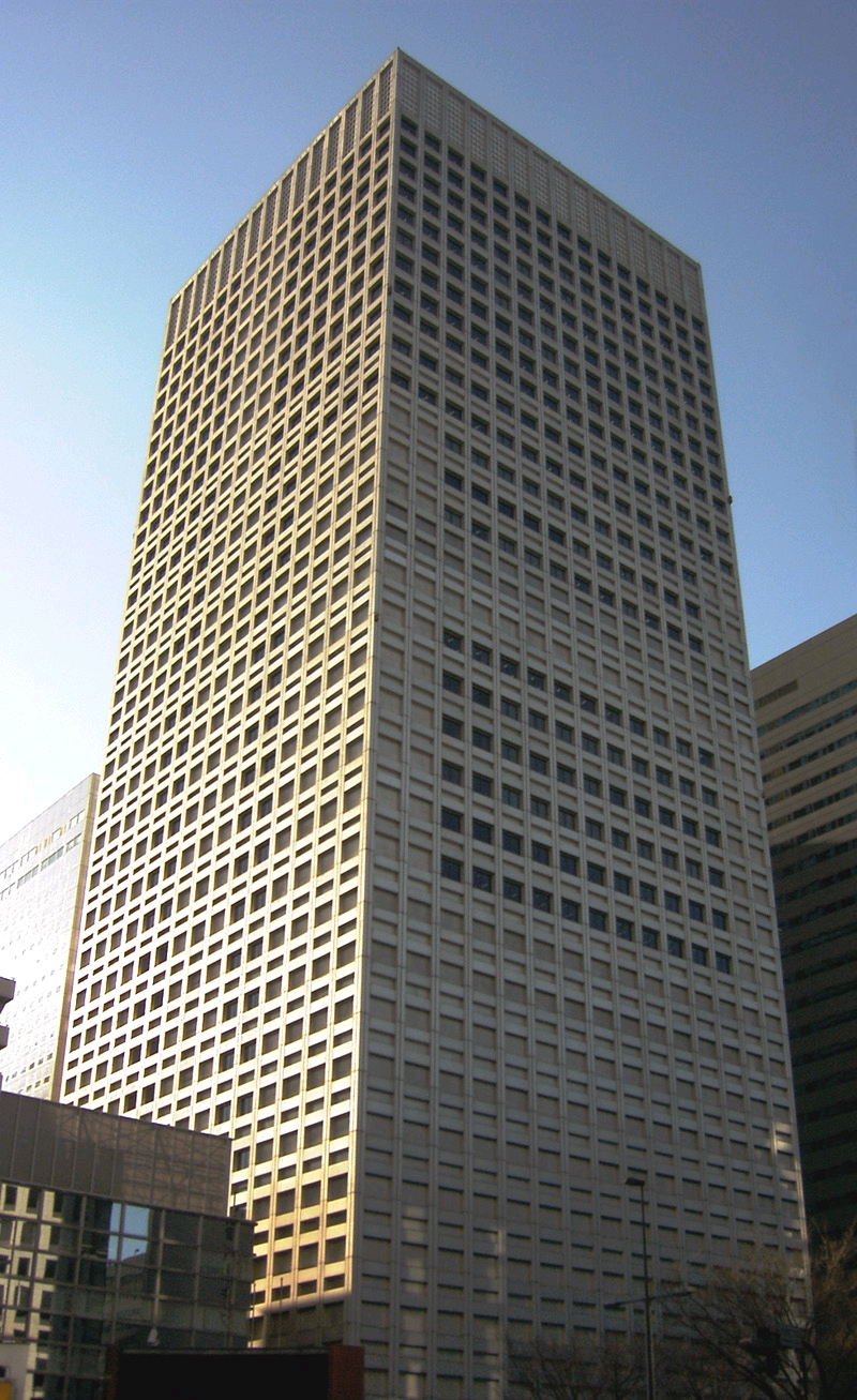 KDDI_Office_Building_Shinjuku Tokyo Japan